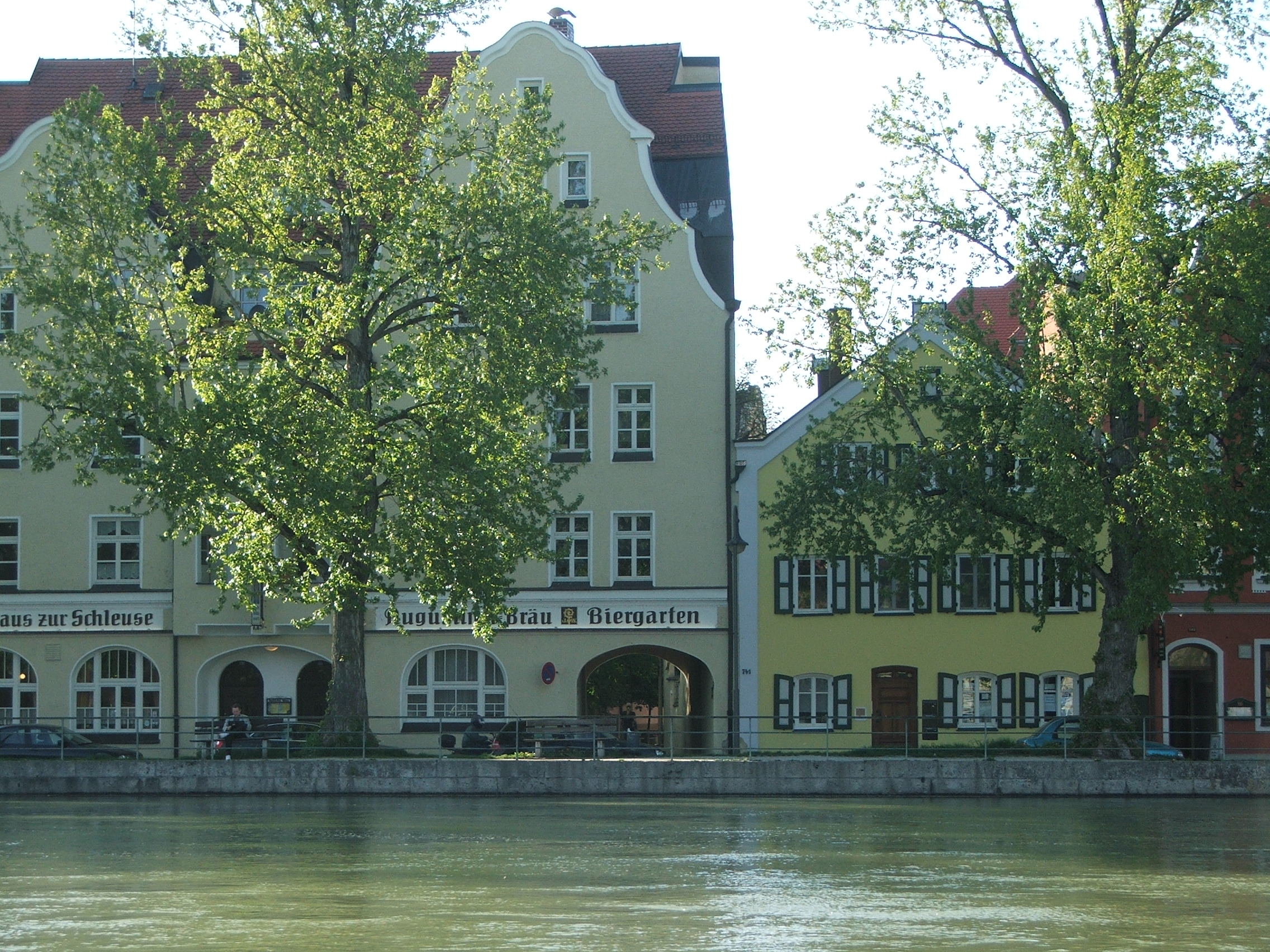 View of the "Isargestade" on the banks of the Isar river, Landshut, Lower Bavaria